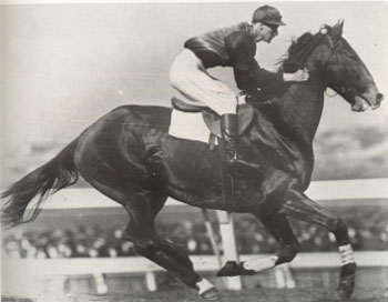 Gloaming taken in 1915